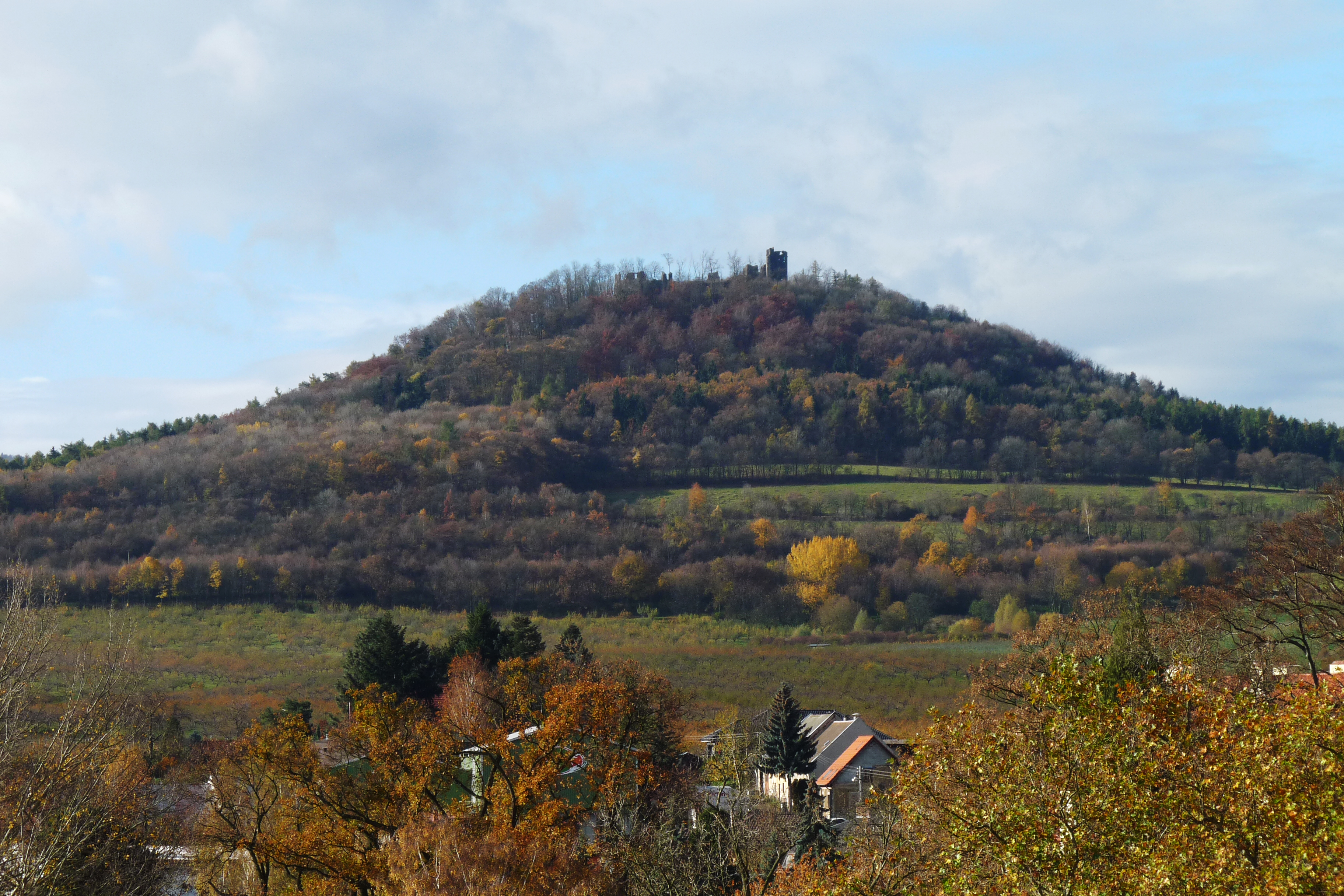 Šumburk Castle ruin as seen from the tower of the chateau in the town of Klášterec nad Ohří, Chomutov District, Ústí nad labem Region, Czech Republic.